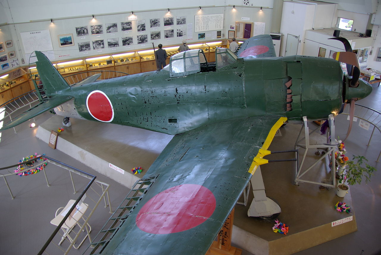 Shiden Kai side view 2